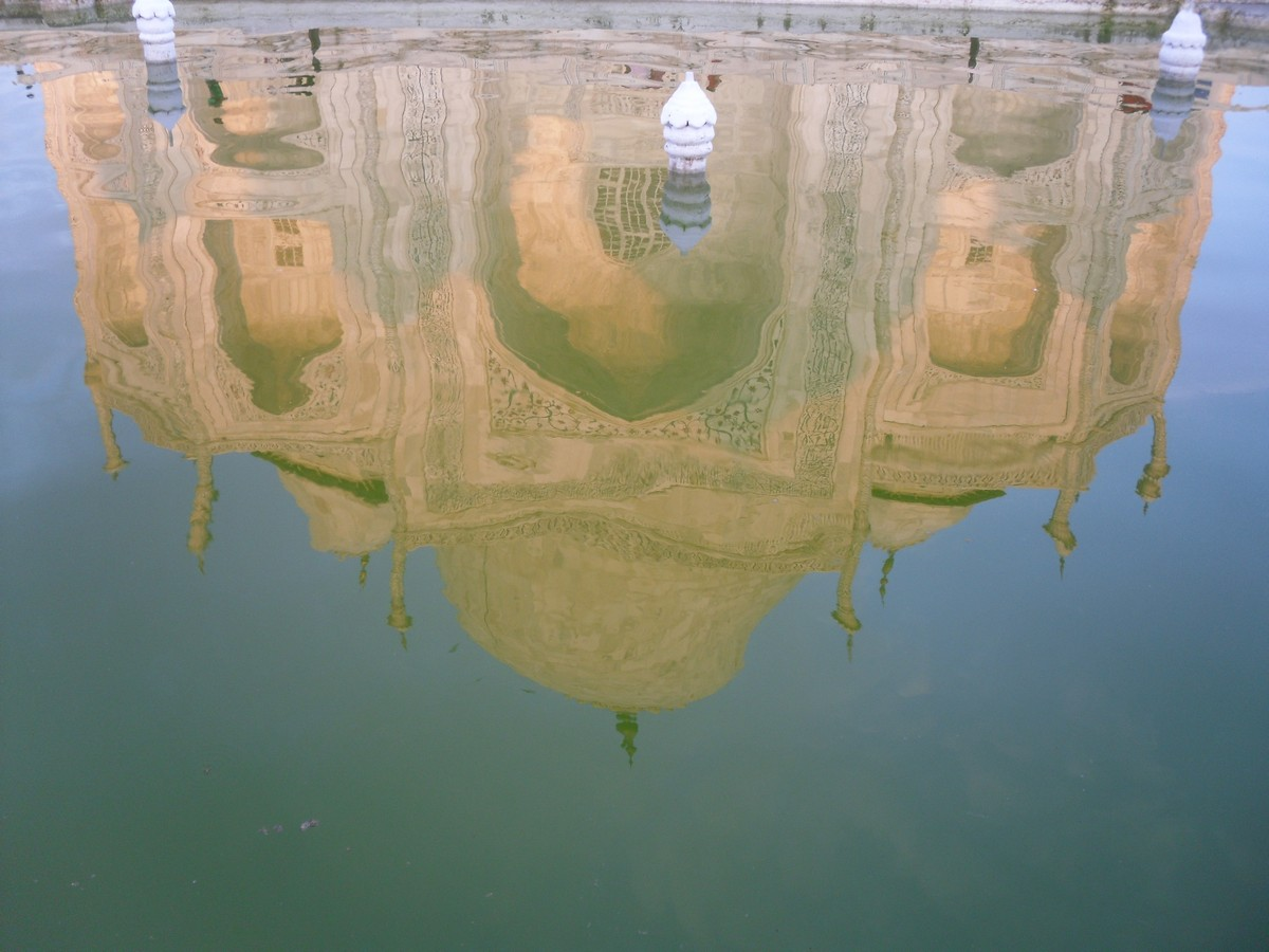 Reflection of Taj Mahal